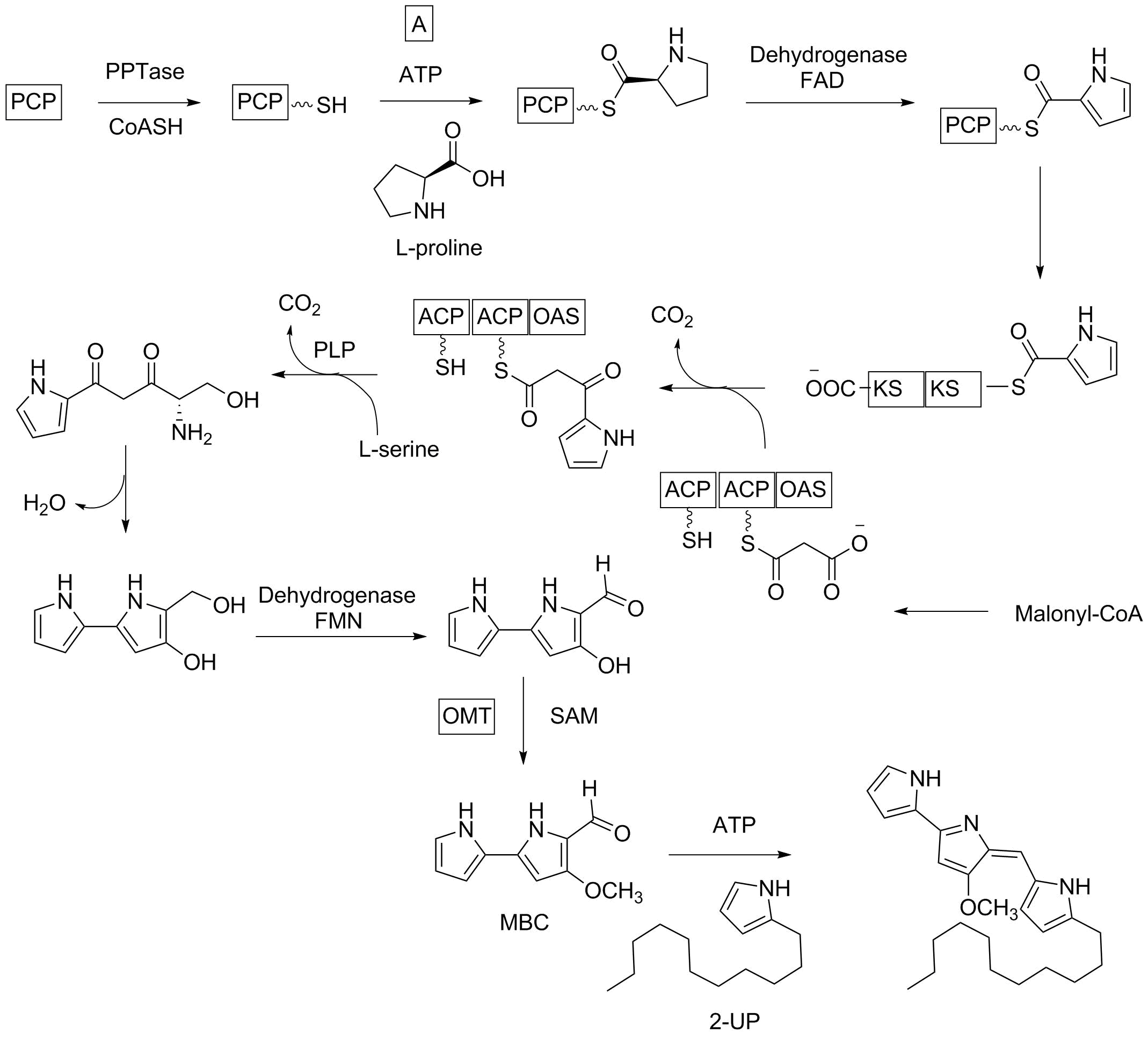 Undecylprodigiosin